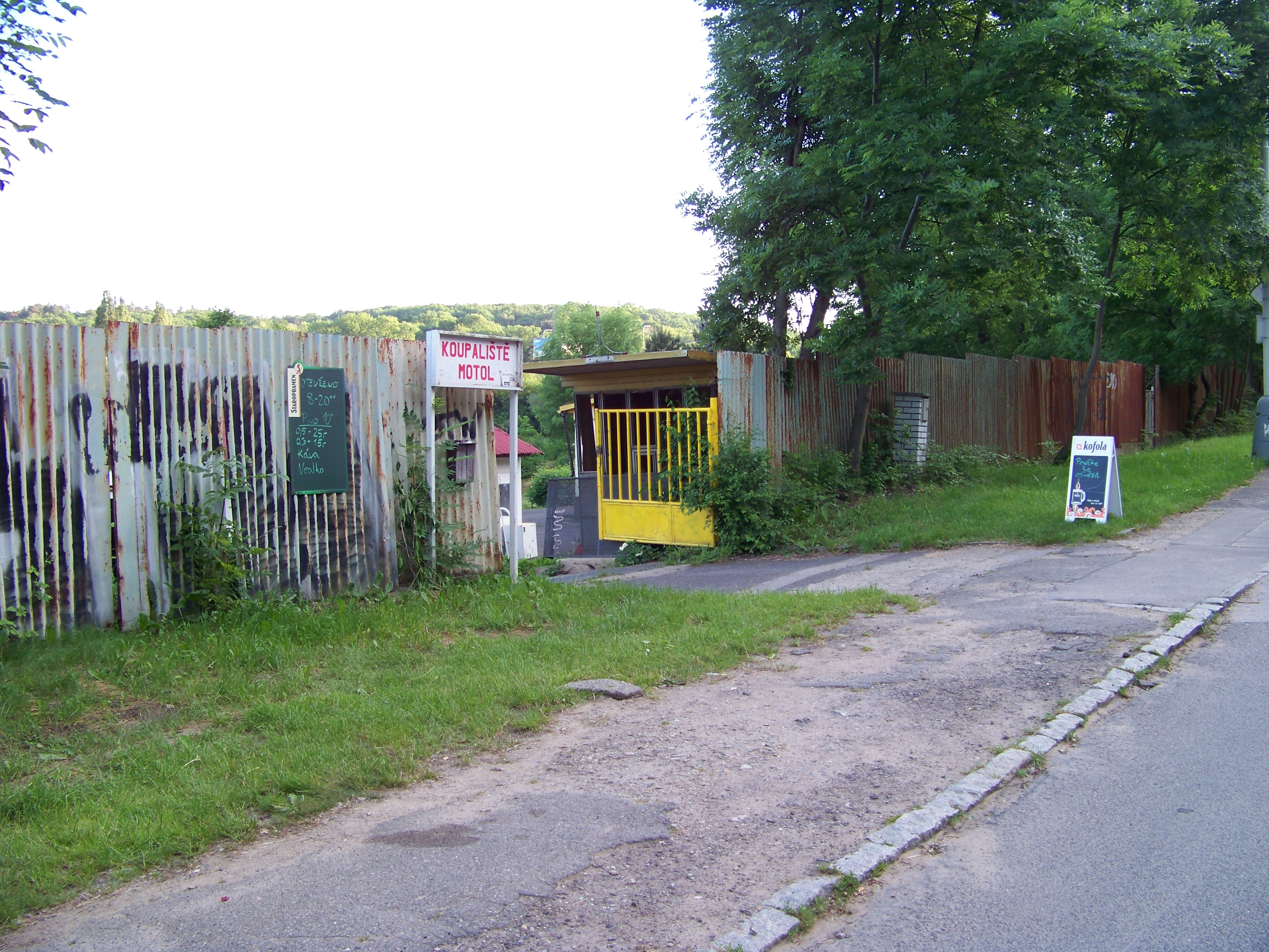 Motol, Prague, the Czech Republic. The entry of the lido (Motol Pond). - Google Maps - Google Earth